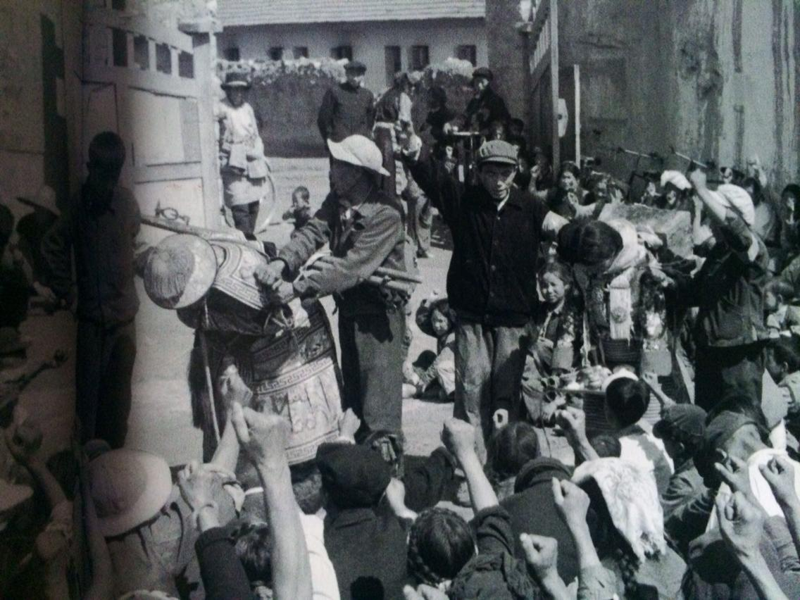 Sampho and his wife during the Cultural Revolution